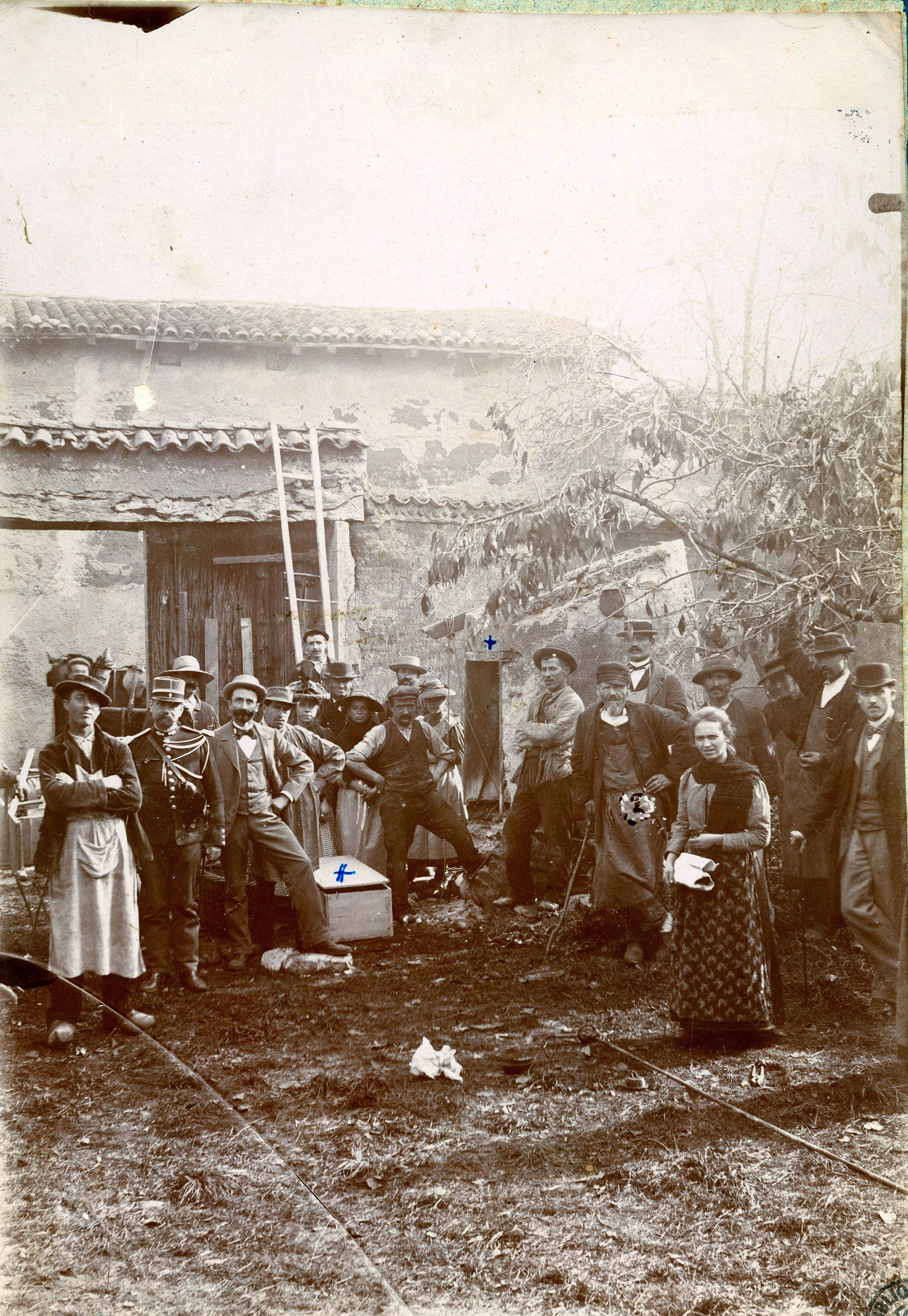 Case Vacher. Discovery of human remains in a pit near, or in, Tassin-La-Demi-Lune. 1897.